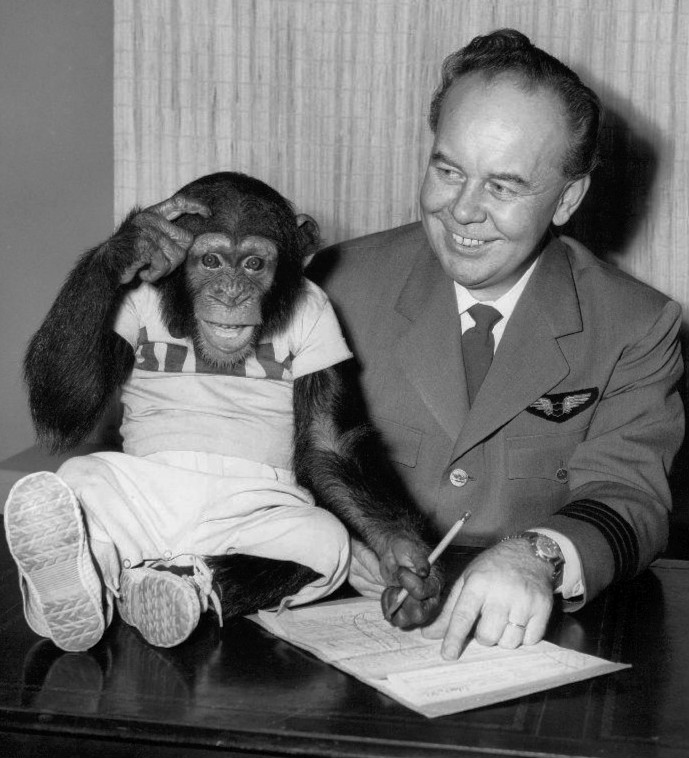 Photo of Ned Locke as Captain Hartz and Jinx the chimp who was one of the regulars on the television program Captain Hartz and His Pets. The show was done at WMAQ-TV in Chicago, owned and operated by NBC. The pet supply company Hartz Mountain was the sponsor of the weekly children's television program.